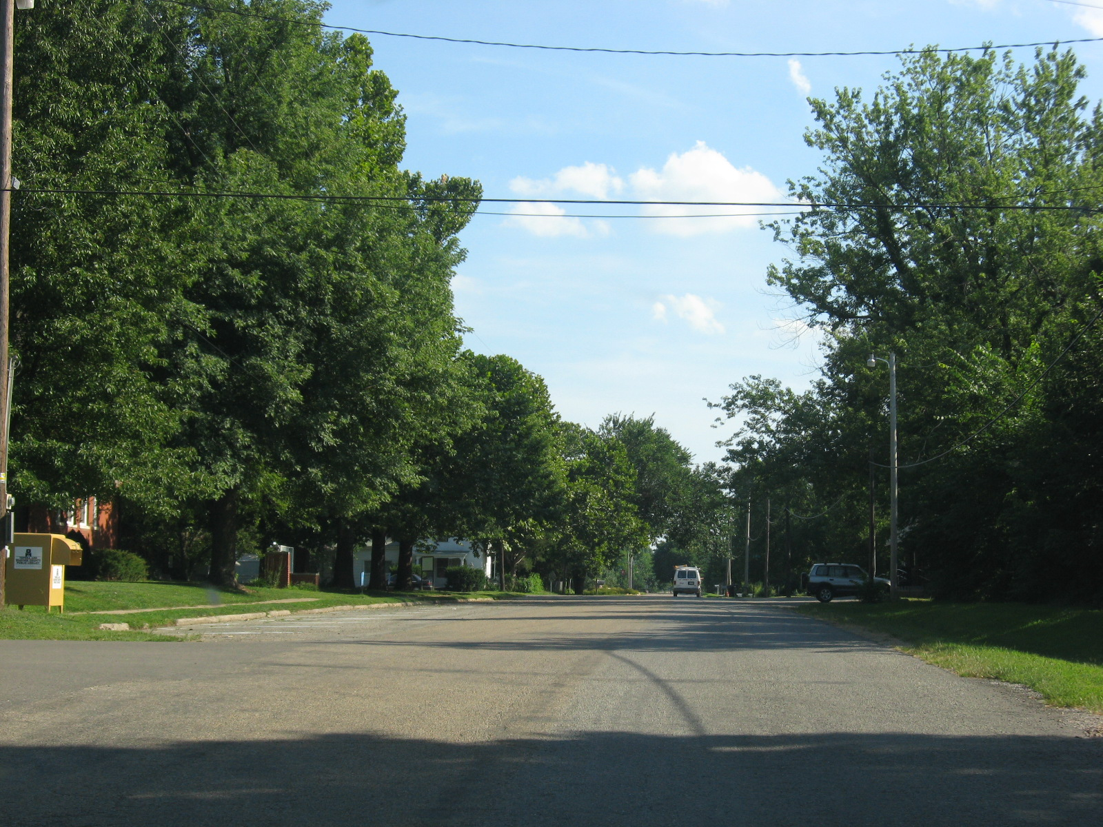 Main part of Tecumseh,Kansas